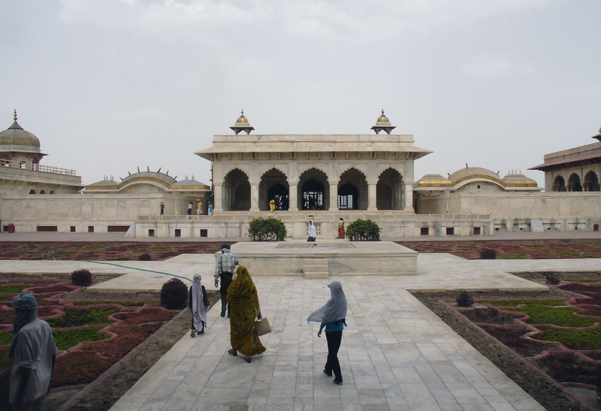 Diwan-i Khass (Khas Mahal) inside Agra Red fort, reign of Shah Jahan.